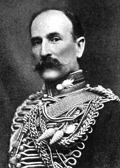 Major Edmond John Phipps-Hornby; 'Q' Battery Royal Horse Artillery ; 31st March 1900